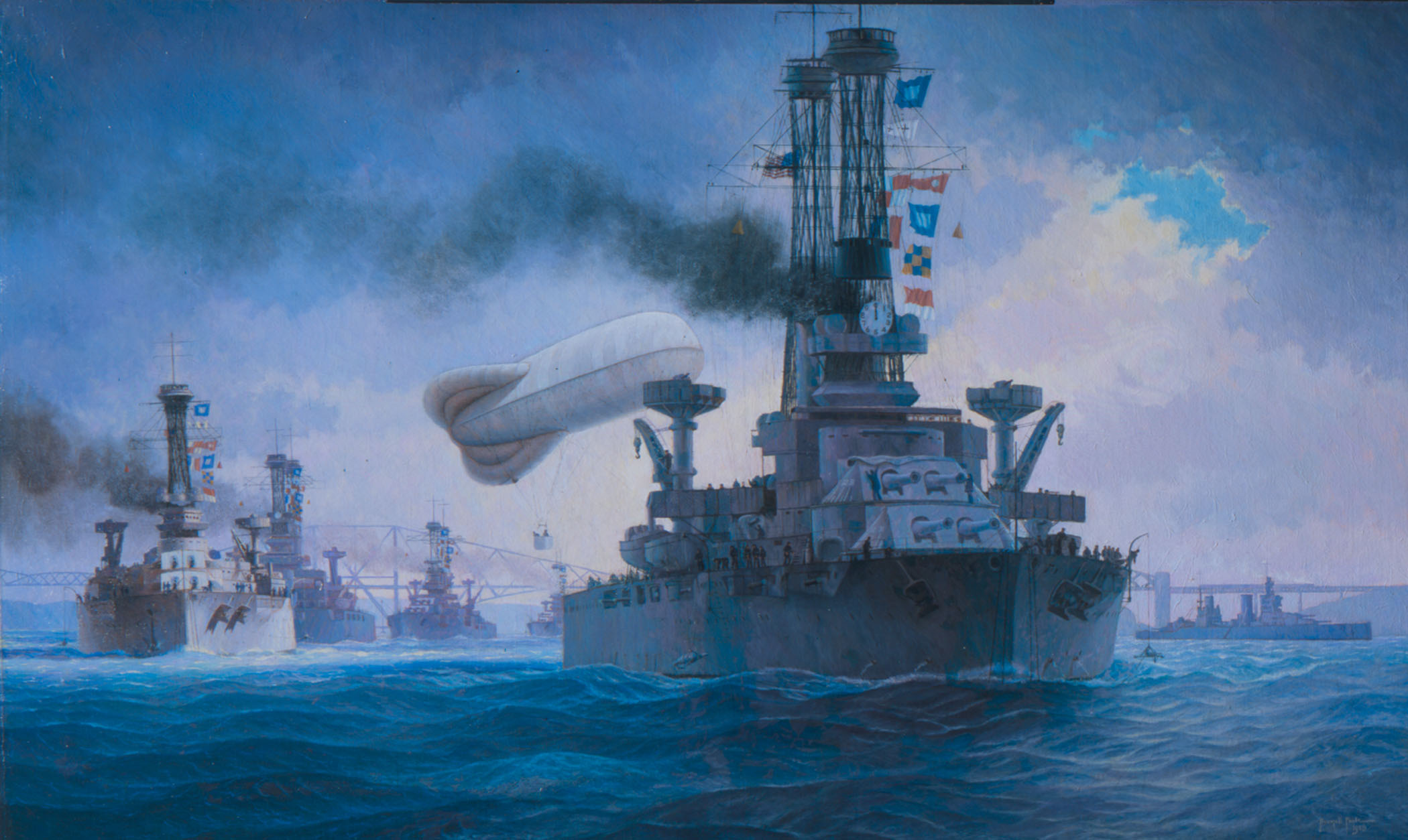 The painting shows the five battleships of the U.S. Navy's Battleship Division Nine, serving as the 6th Battle Squadron of the British Grand Fleet sometime in 1918. This U.S. battleship squadron had been assigned to the Grand Fleet in late 1917, after the U.S. had entered World War I. It initially consisted of four battleships: New York (BB-34), Wyoming (BB-32), Florida (BB-30), and Delaware (BB-28). On 11 February 1918, Texas (BB-35) joined the squadron, making five. Delaware was replaced by Arkansas (BB-33) on 29 July 1918. Since the painting shows five U.S. battleships, it must depict the squadron sometime in 1918; the individual ships cannot be identified, though New York may be in the lead. The Forth Bridge is in the background, with a British Lion-class battlecruiser visible off to the right.